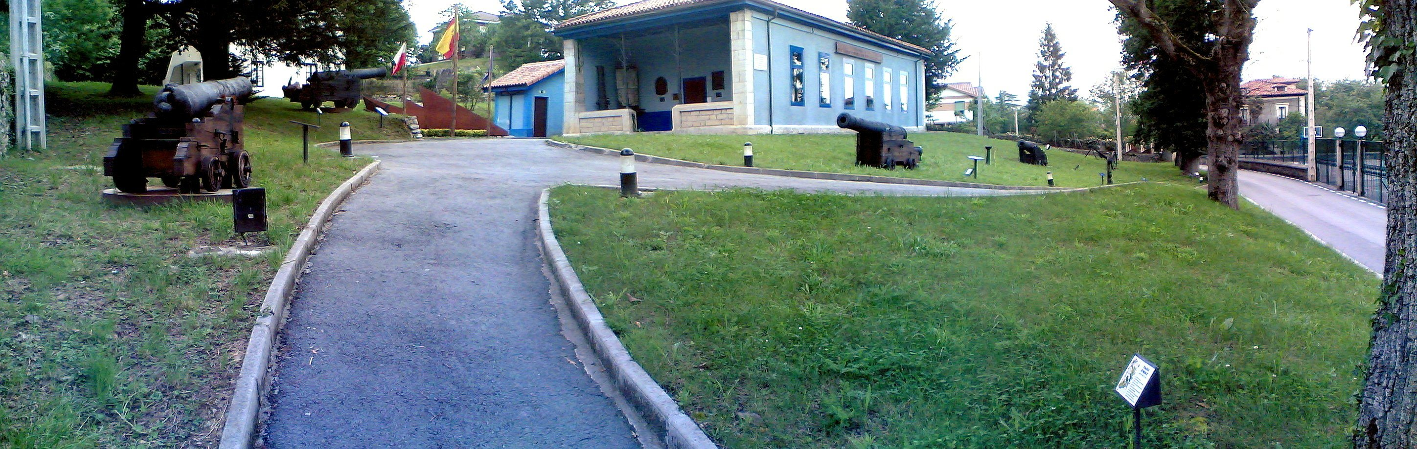 Museum of the Royal Artillery Factory at La Cavada (Cantabria, Spain)